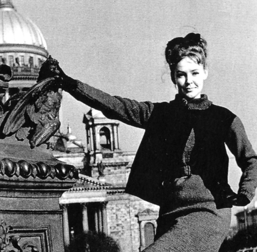 Photograph of the Finnish actor Tuija Vuolle (1942–) during her visit to Leningrad.